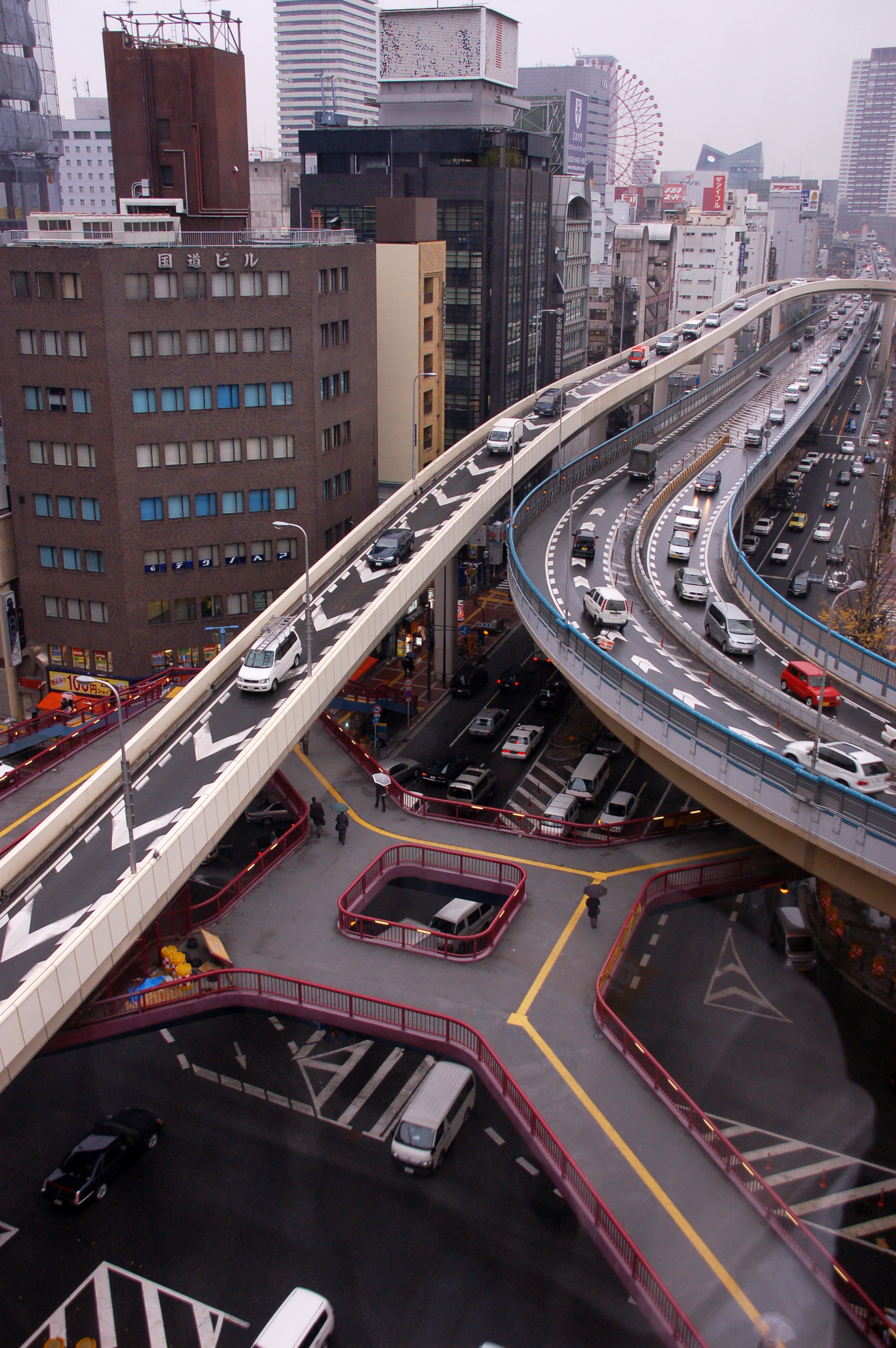 Shinmidosuji, Osaka